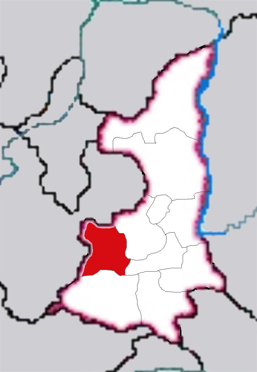 Maps of Shaanxi Province of China